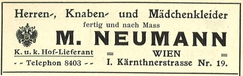 old advertisement of a purveyor to the Imperial and Royal Court of Austria-Hungary.